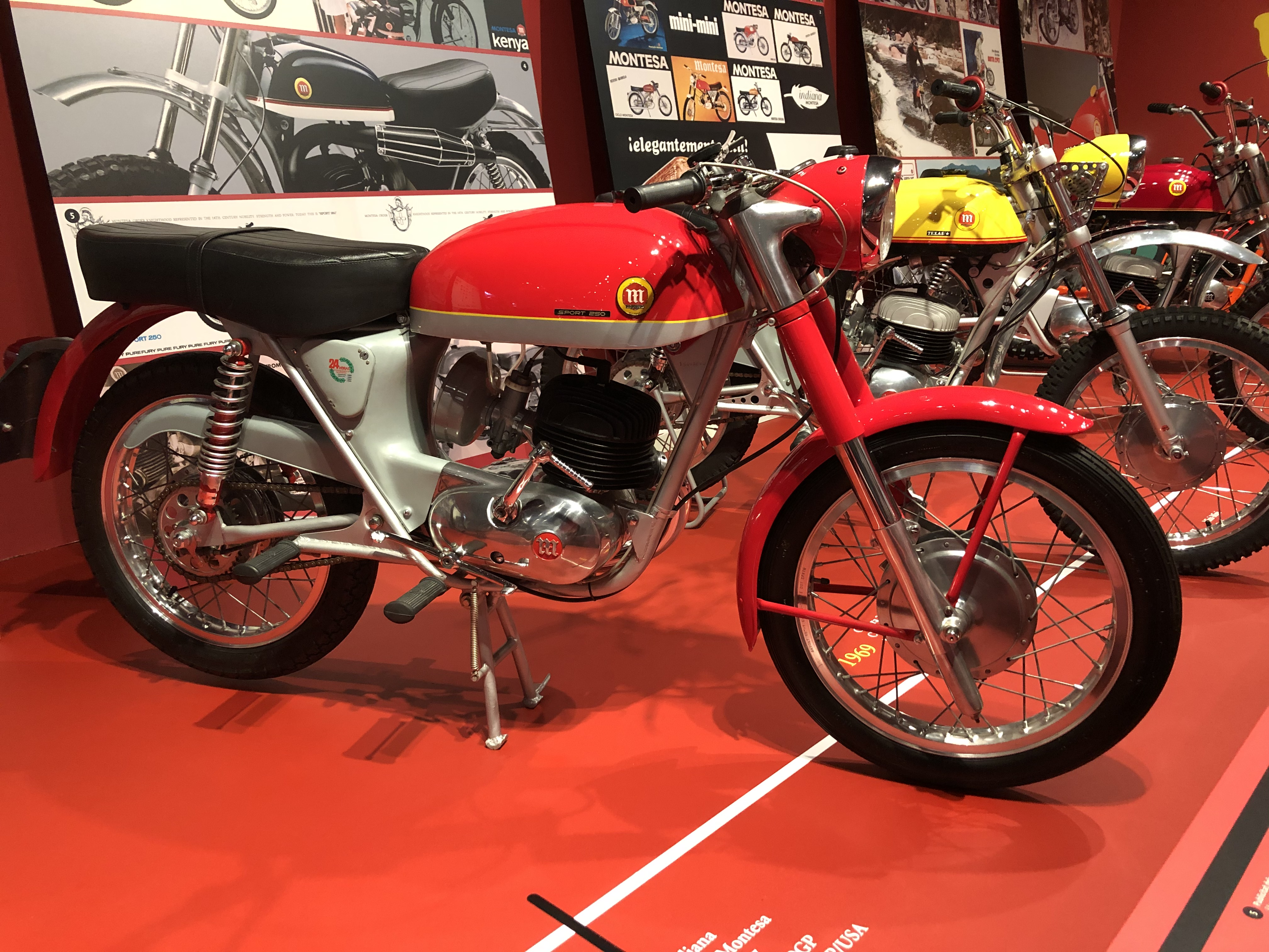 Montesa Impala Sport 250 (1966), 15M, 247.6 cc